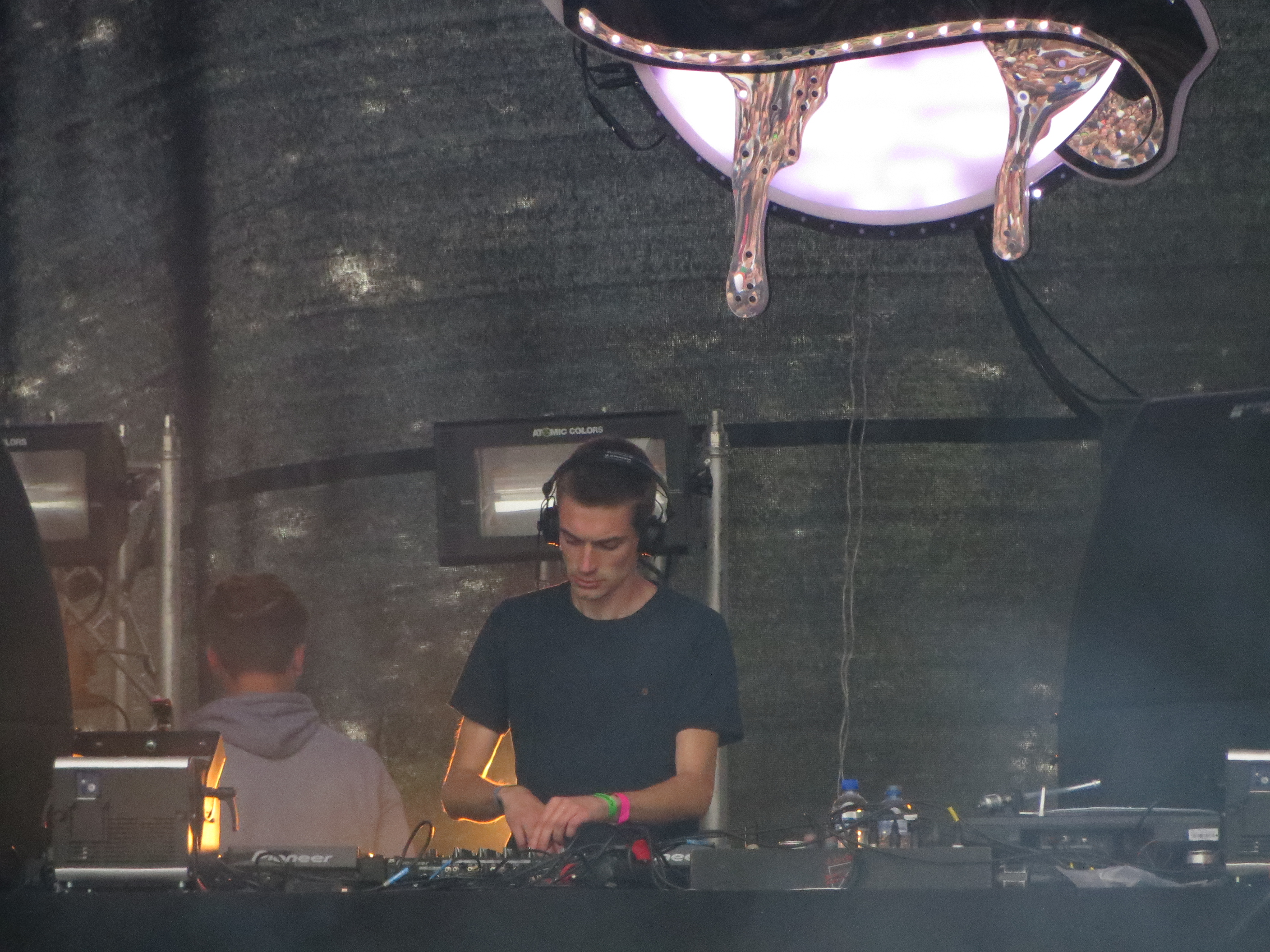 Maduk on stage at Liquicity Festival 26 July 2015 (Diemerbos, The Netherlands)